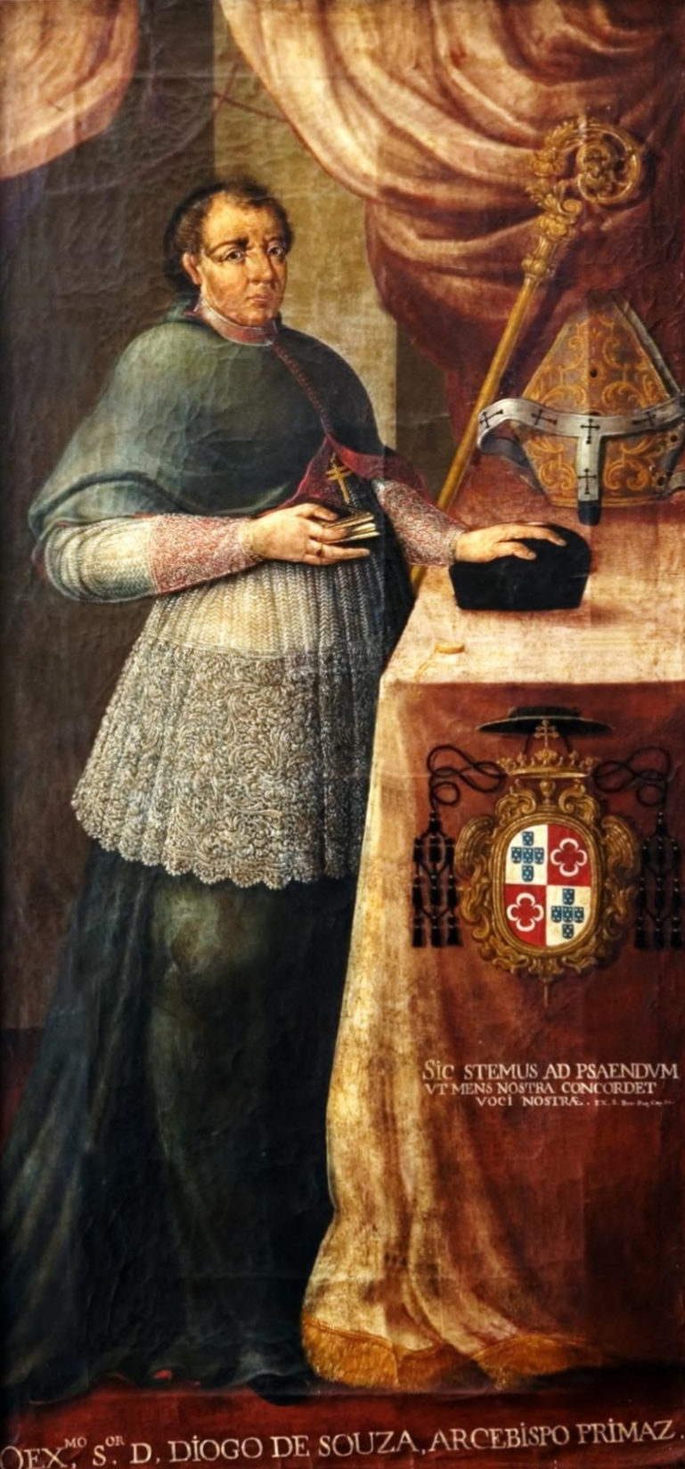 D. Diogo de Sousa, bishop of Oporto (1496-1505) and archbishop of Braga (1505-1532)